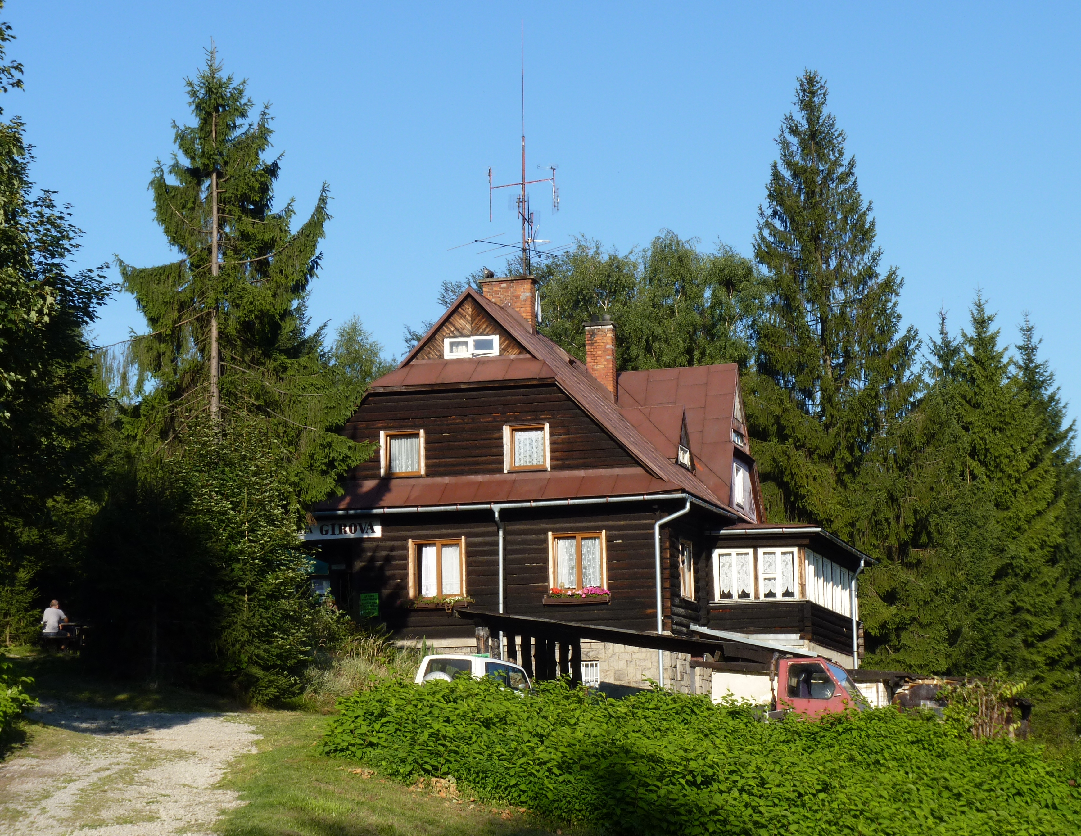 Gírová cottage. Silesian Beskids, Moravian-Silesian Region, Czech Republic